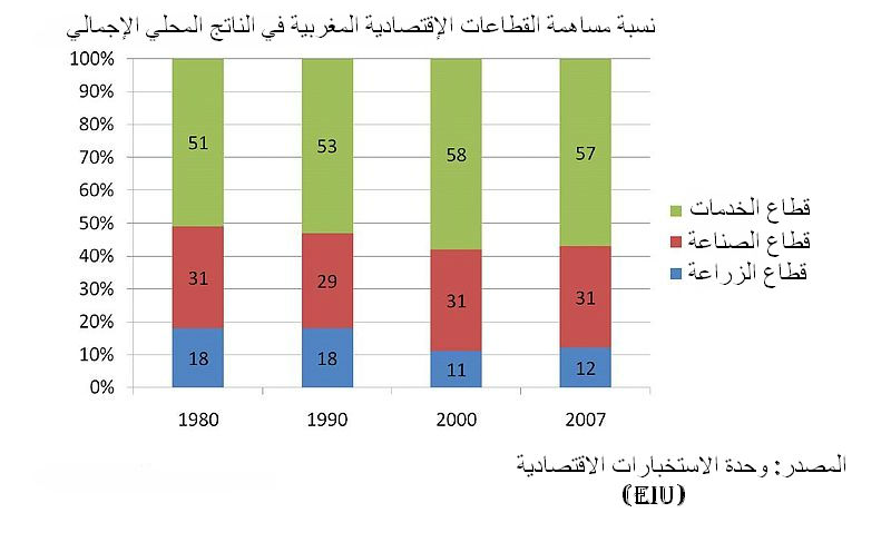 Breakdown of Moroccan GDP by sector (source:EIU)